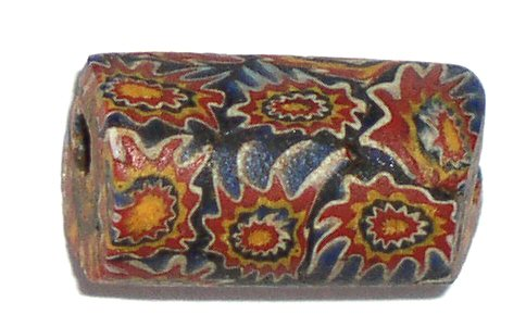 Venetian Millefiori bead made in Murano, Venice sometime between between 1850 and 1950.